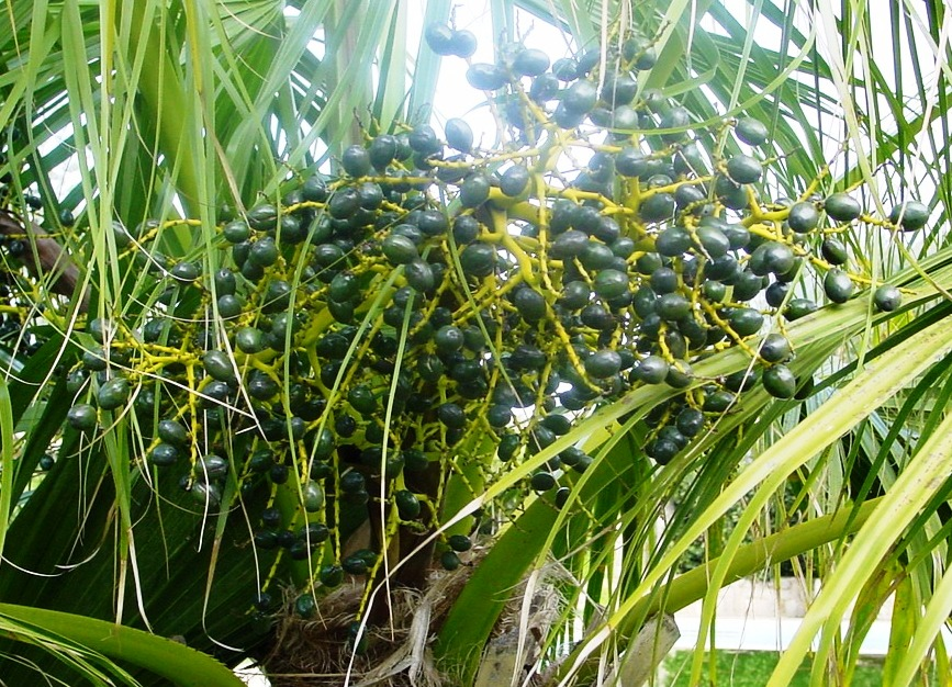 Oggetto Livistona chinensis - fruits (private collection, Palermo) Uploaded by Esculapio